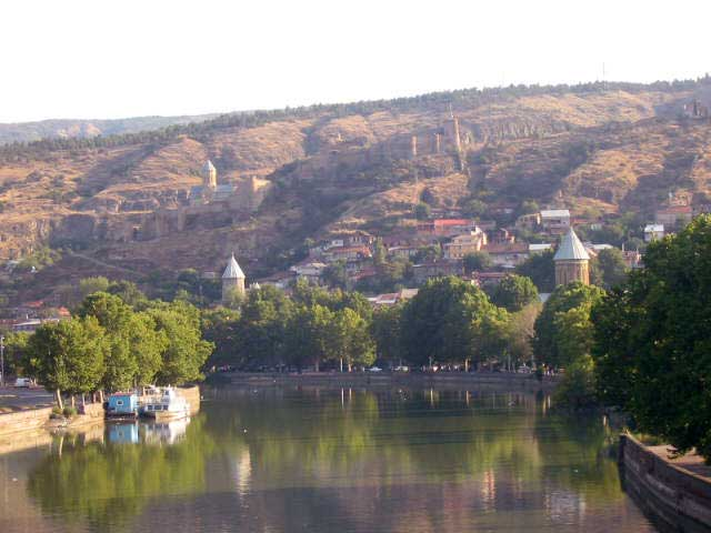 Kura river at Tbilisi